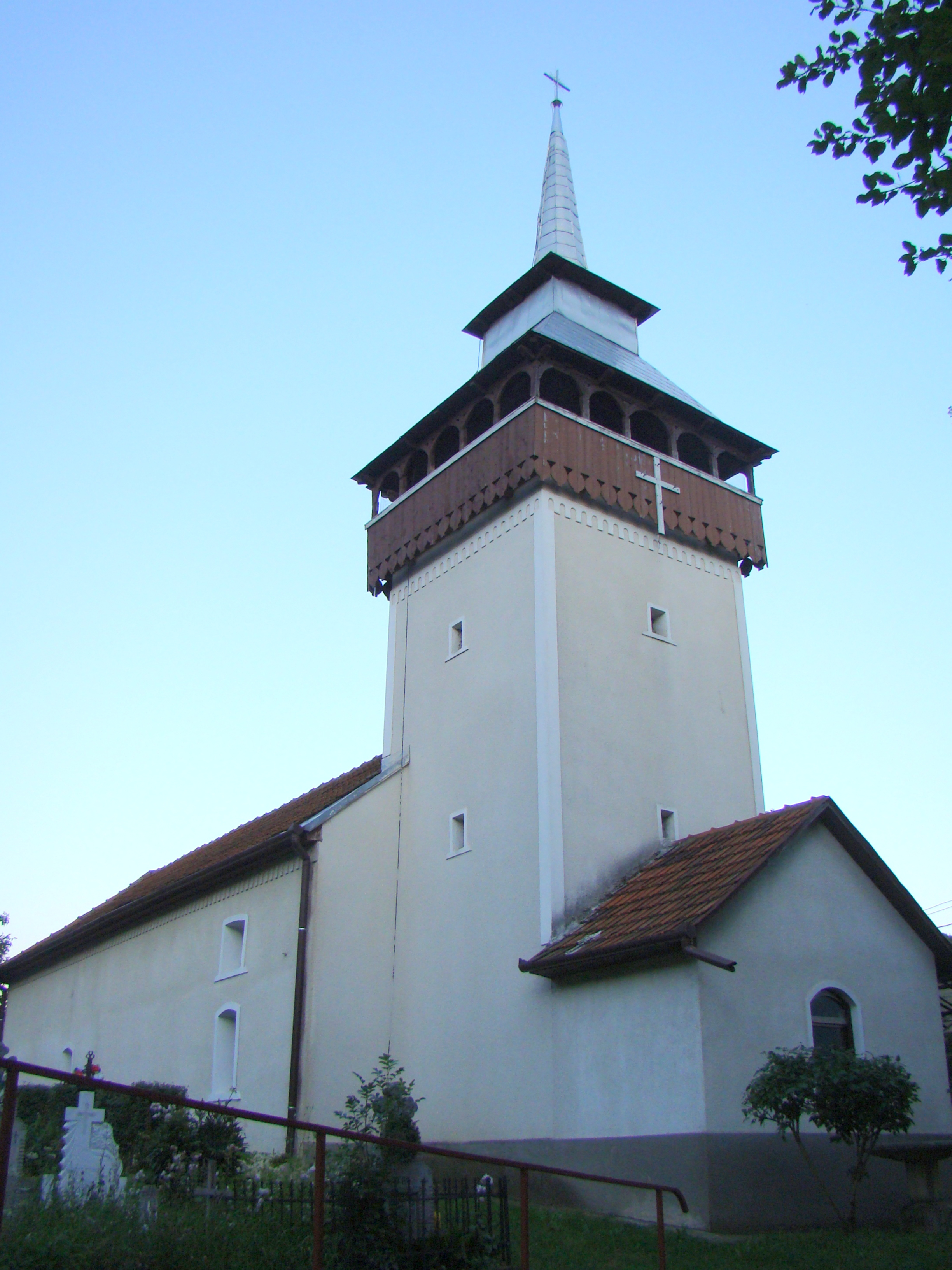 Orthodox church of the Pious Saint Paraskeva in Meteș, Alba county, Romania